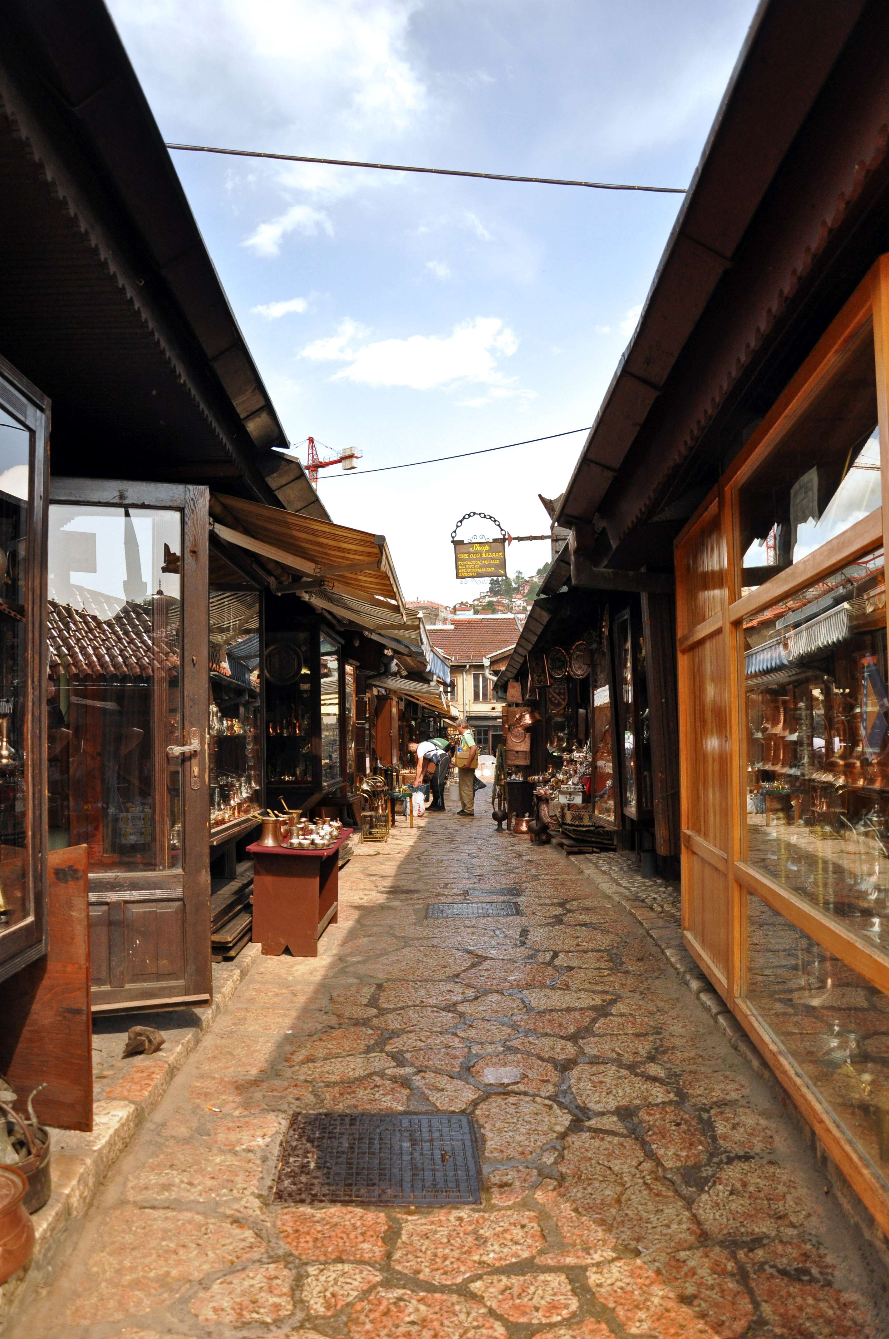 Built in the 15th century and considered the “heart and soul” of Sarajevo, this old bazaar is home to a many of the city’s hotels, restaurants, and nightspots. While the area was the center of trade and commerce during Ottoman rule, it’s now packed with a mix of locals, travelers, and tour groups.